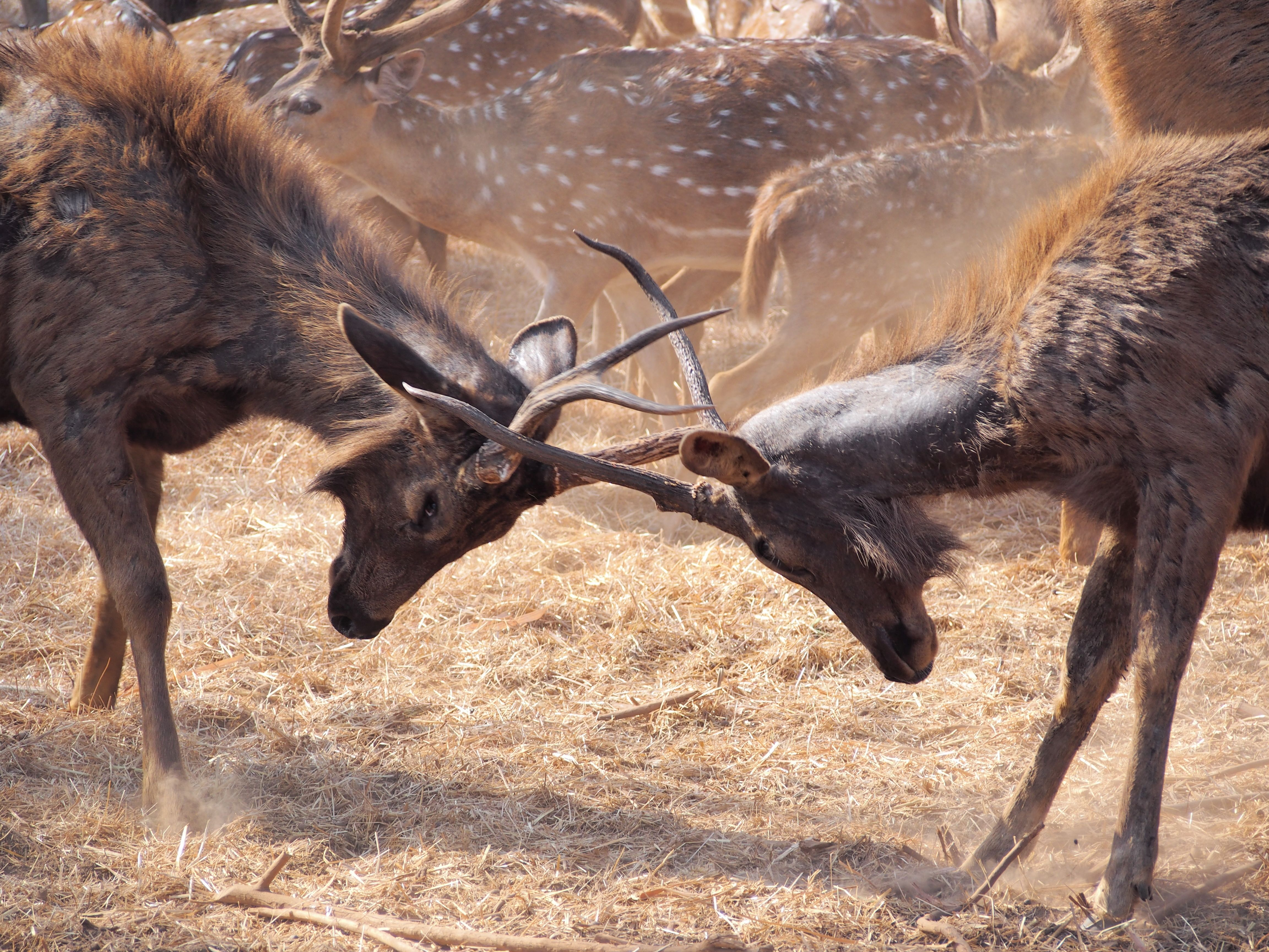 Two stags locking horns